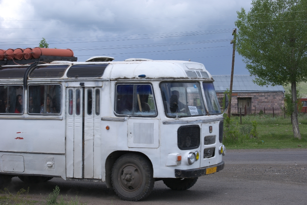 Public transport bus in Armenia